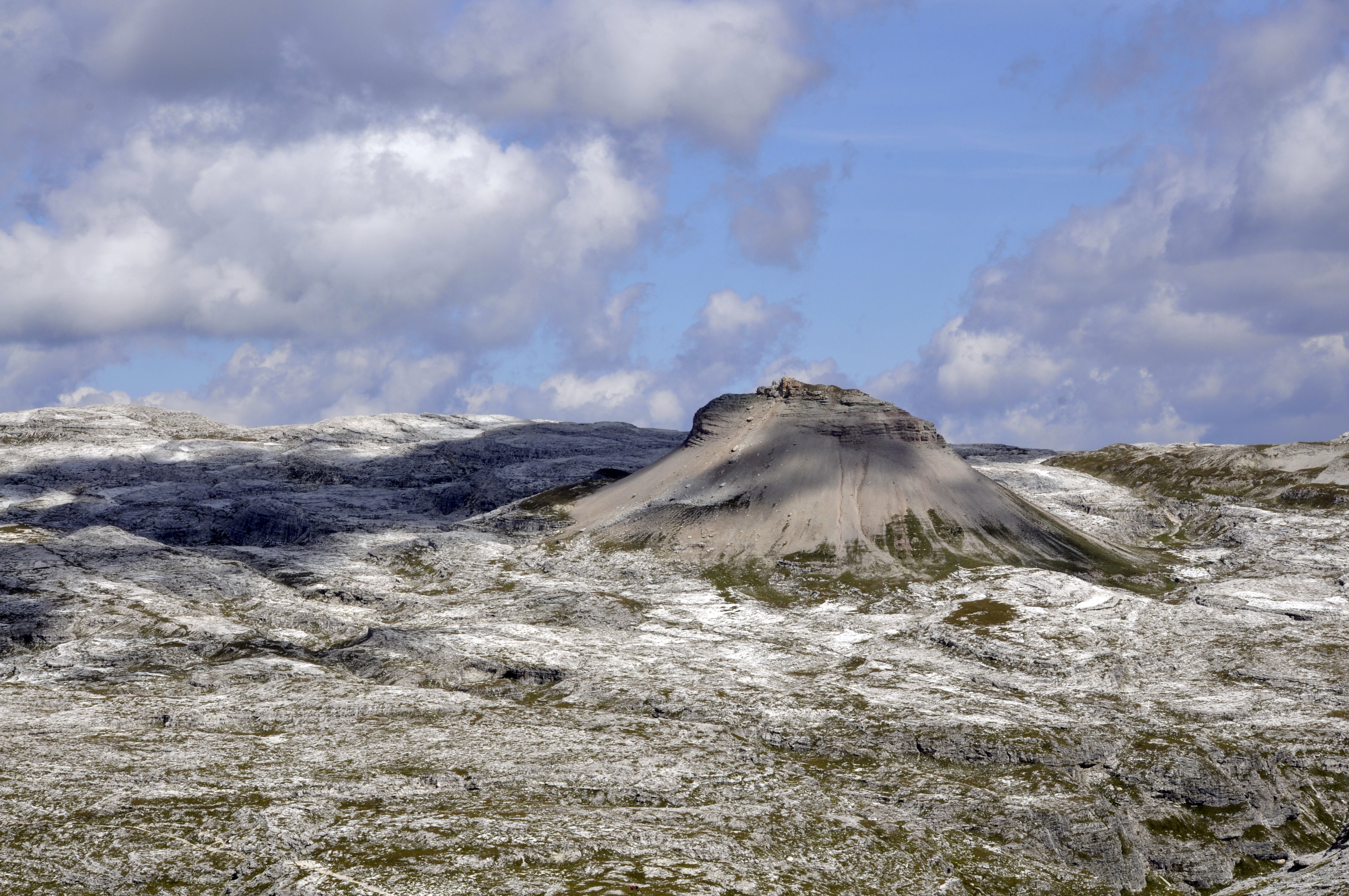 Puez in Gröden